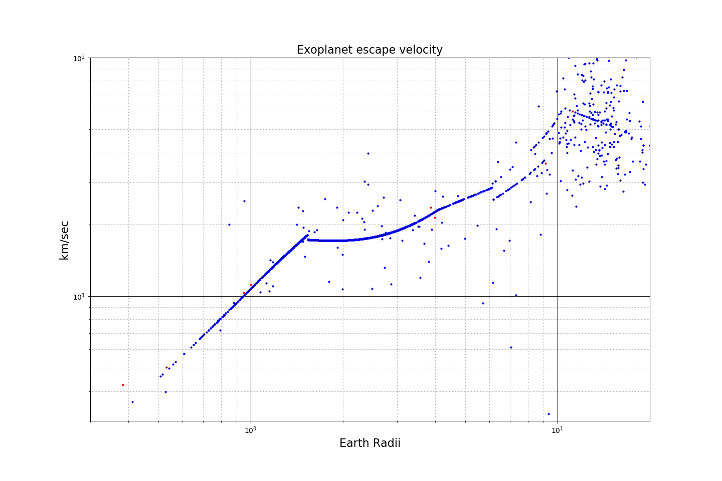 Escape velocity of Exoplanets. Data downloaded from which states: If you use this resource in a publication, please cite this ( paper and include the following acknowledgement